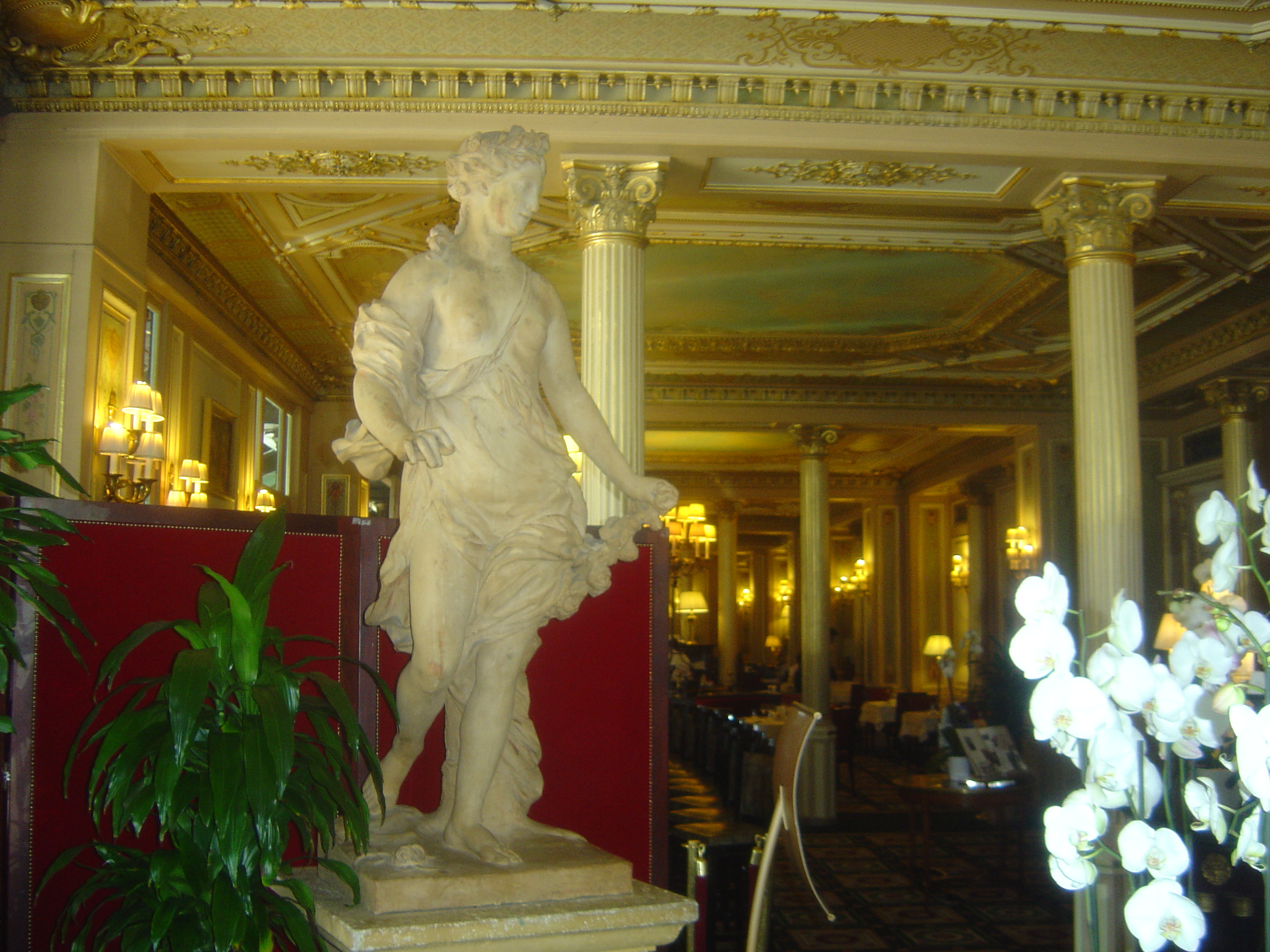 Interior of Café de la Paix, Paris 2011